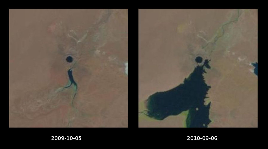 Chagan "Atomic Lake" in 2009 and 2010. Circular basin above the center of the image is the crater created by Soviet nuclear test in 1965; on the 2010 image it appears to be connected with a shallow reservoir on Shagan River, allowing water exchange.